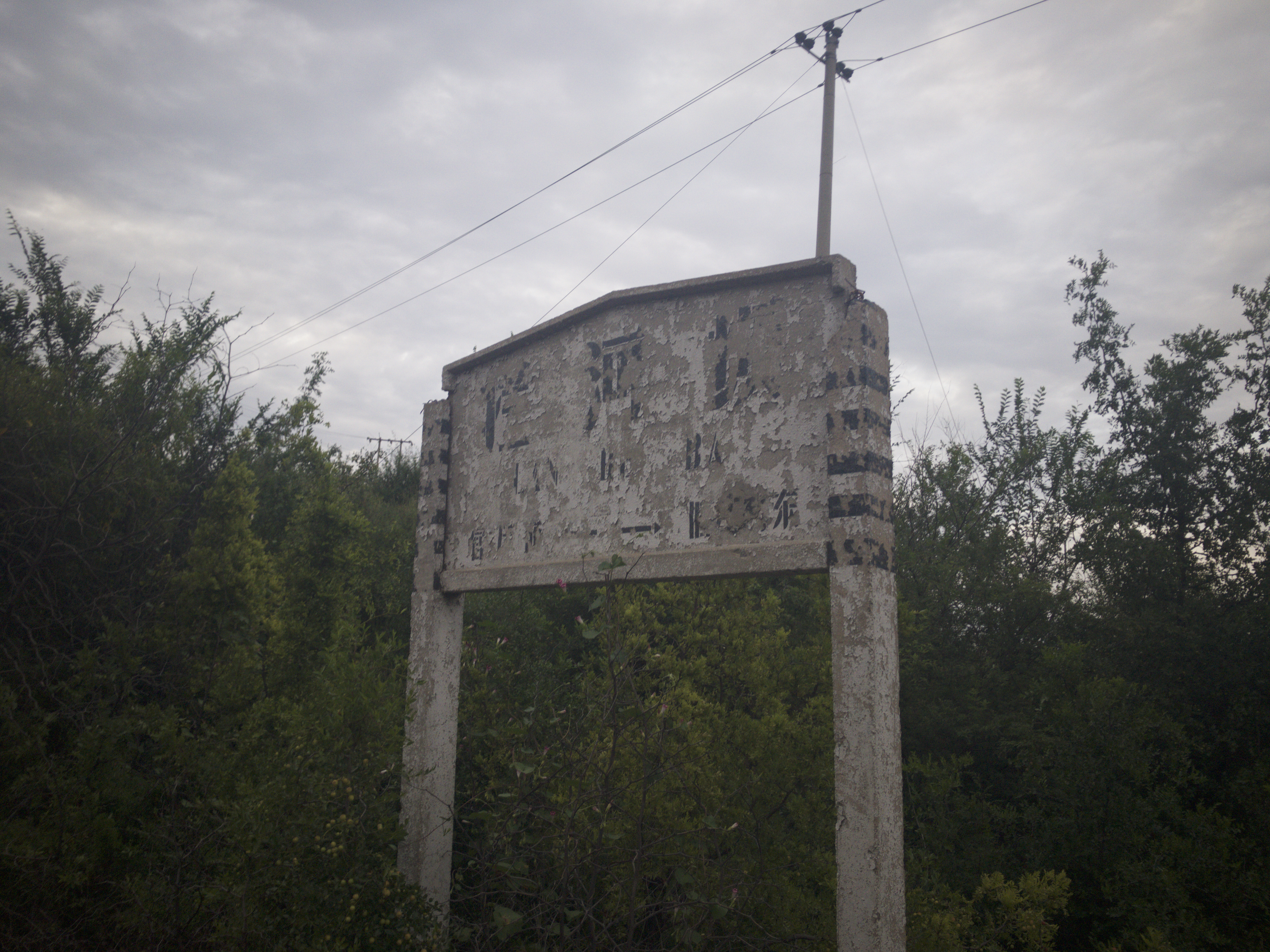 Fengtai-Shacheng Railway Lanheba Transfer Station